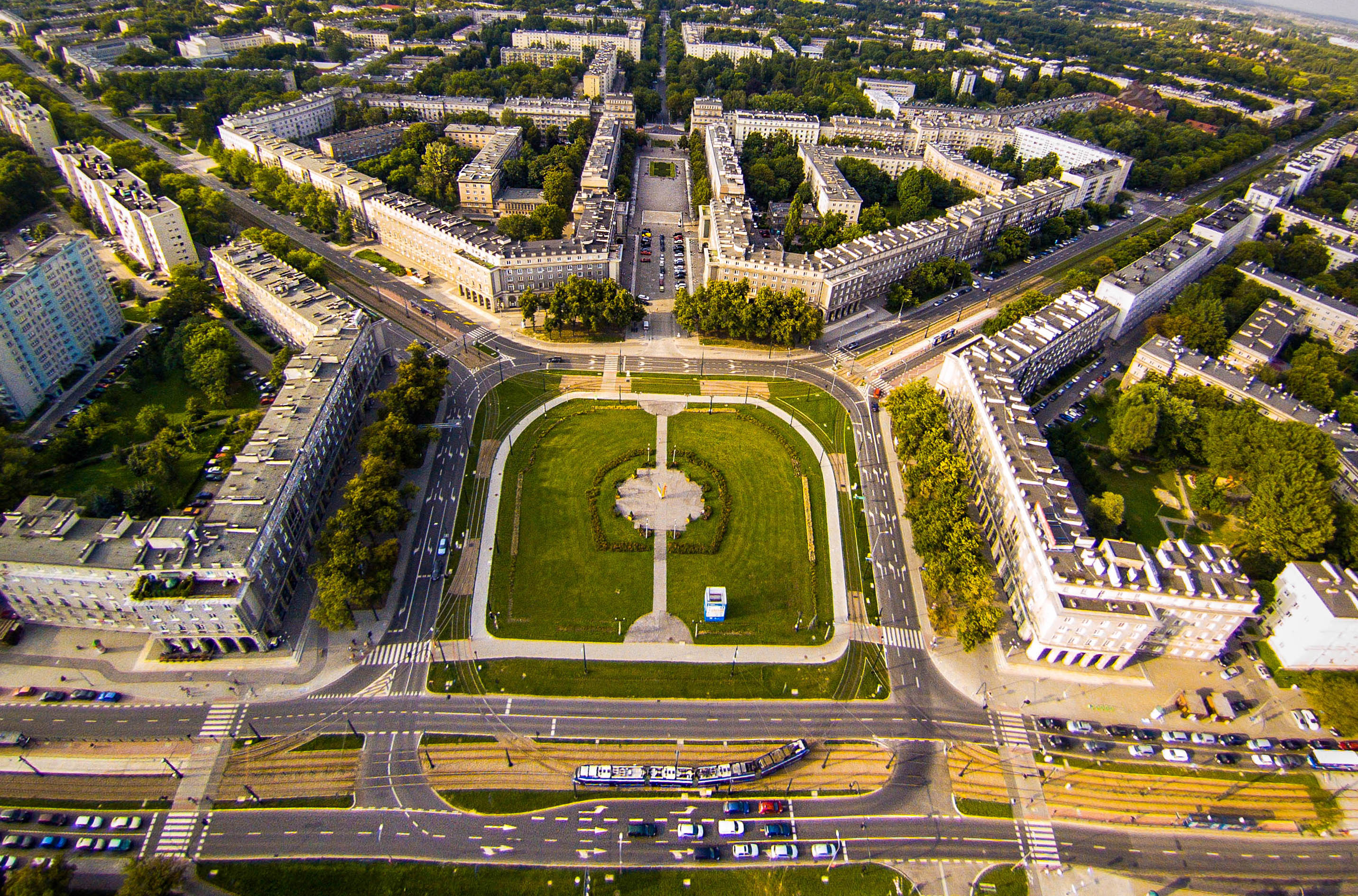 Plac Centralny w Nowej Hucie